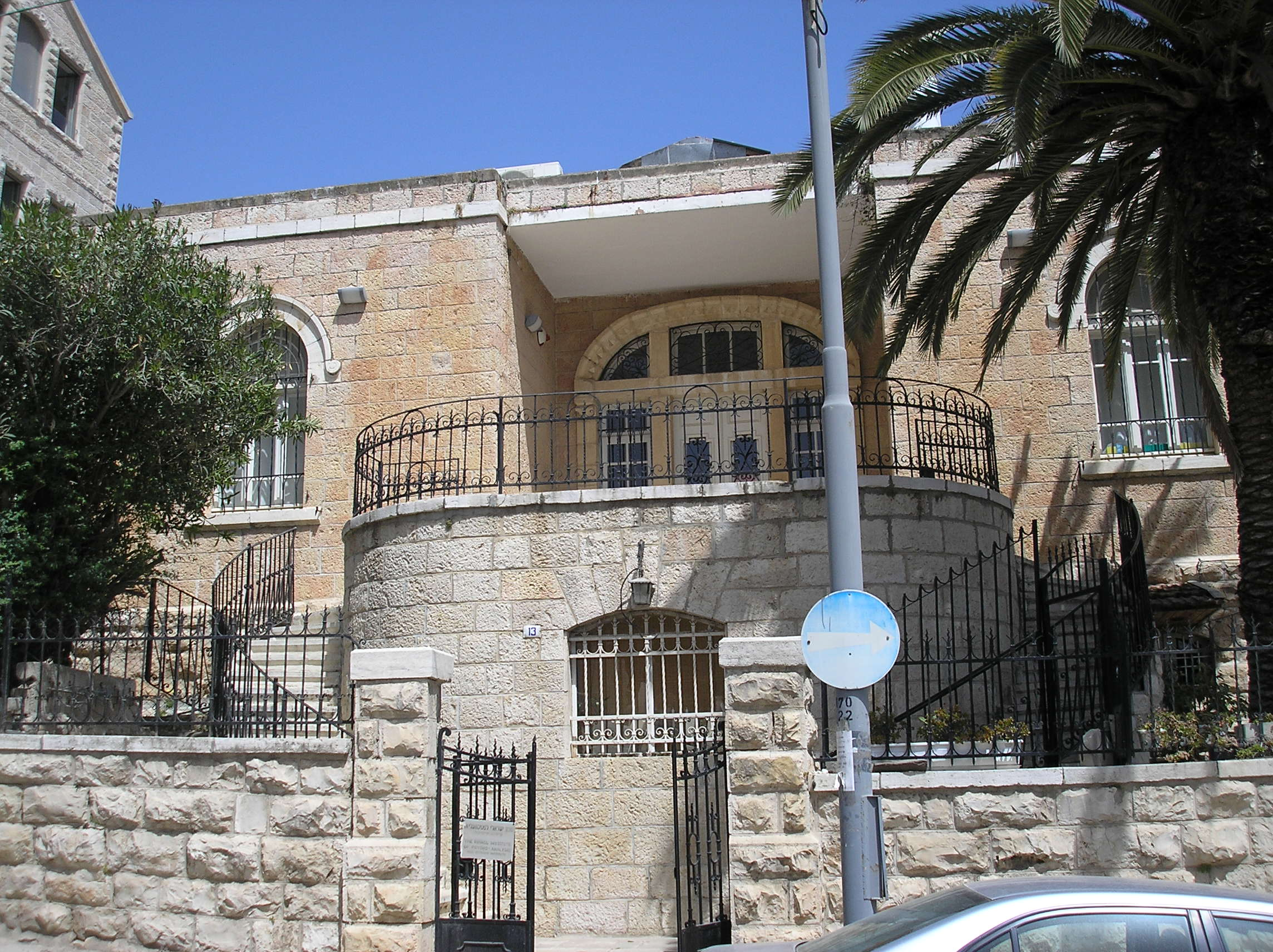 The Israel Institute of Psycho - Analysis Building, Talbiya, Jerusalem